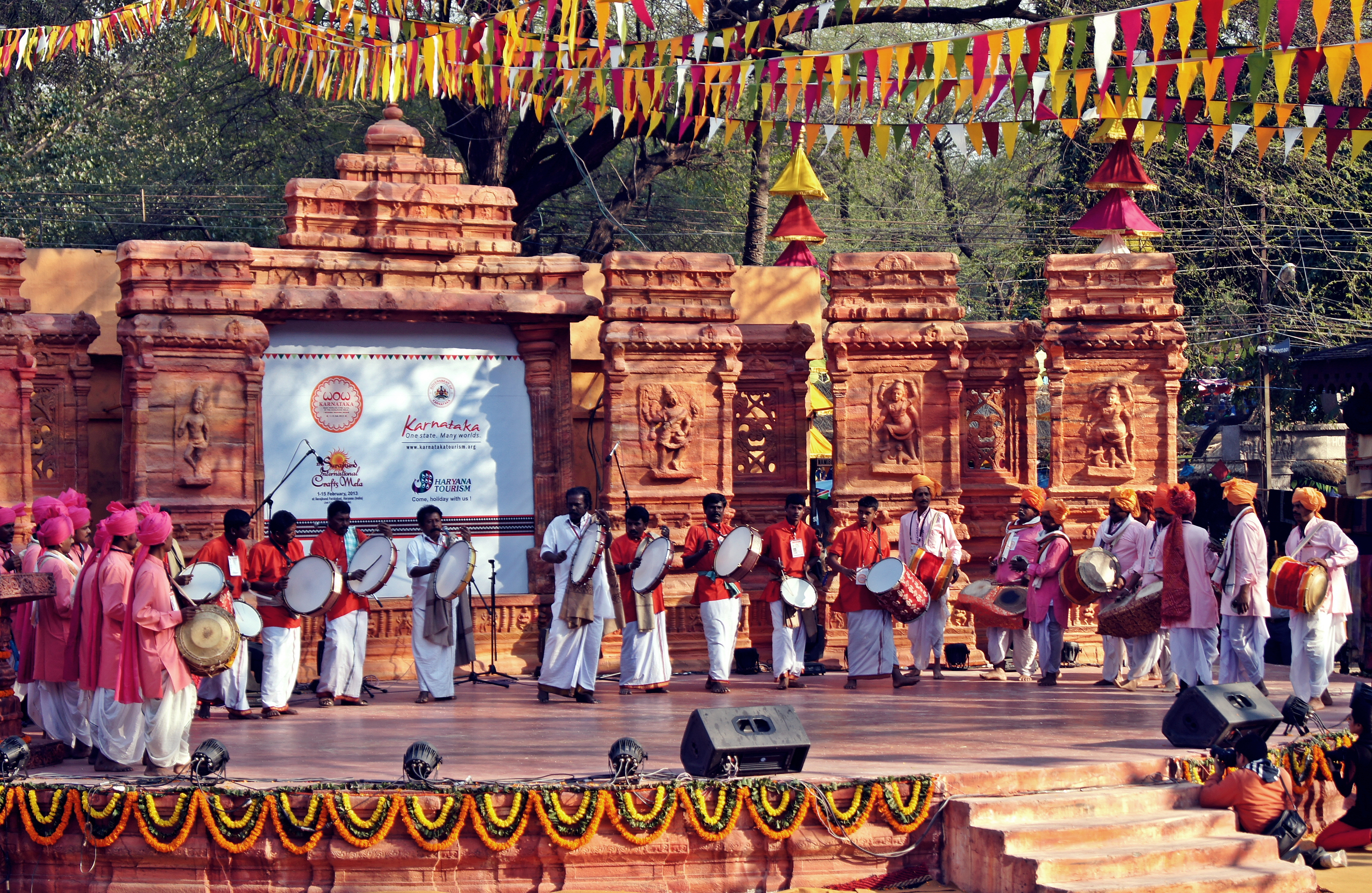 N-HR-17 Suraj Kund Festival